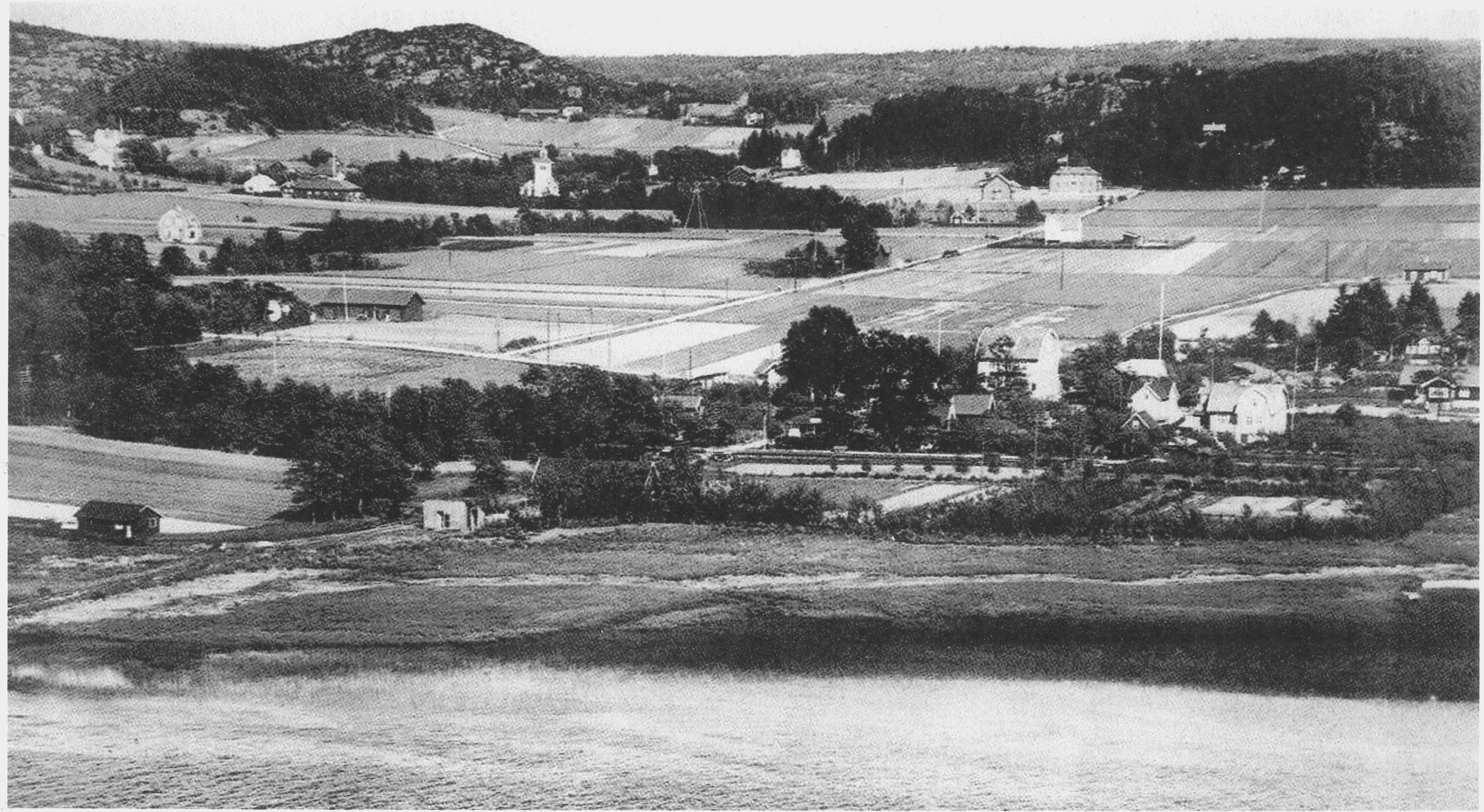 The village Nödinge, north of Gothenburg around 1930. Newer photo of the same view: File:Nödinge seen from Mariebergs naturreservat 04.jpg.